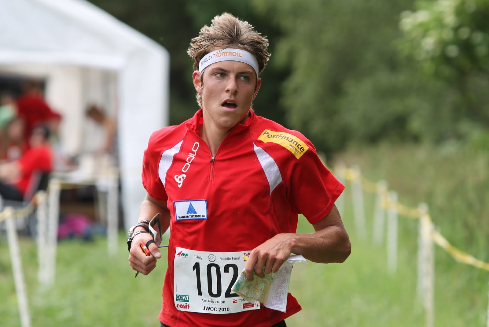 Matthias Kuburz (SUI) at JWOC 2010 (Middle)